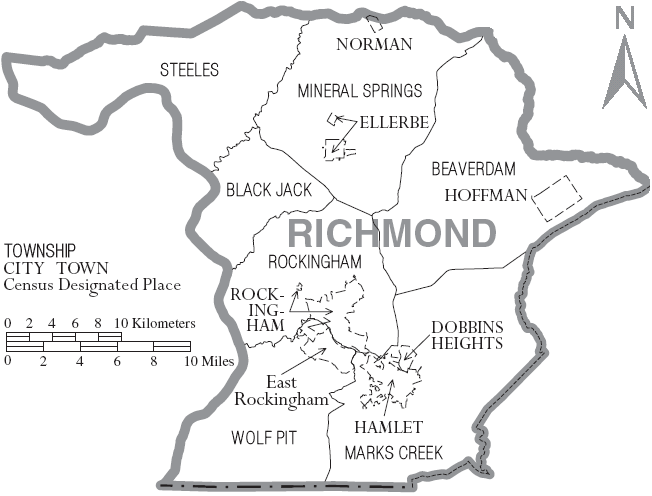 Map of Richmond County, North Carolina, United States with township and municipal boundaries